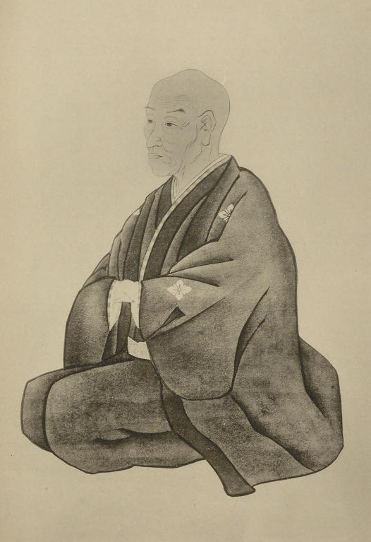 Portrait of Ema Ransai